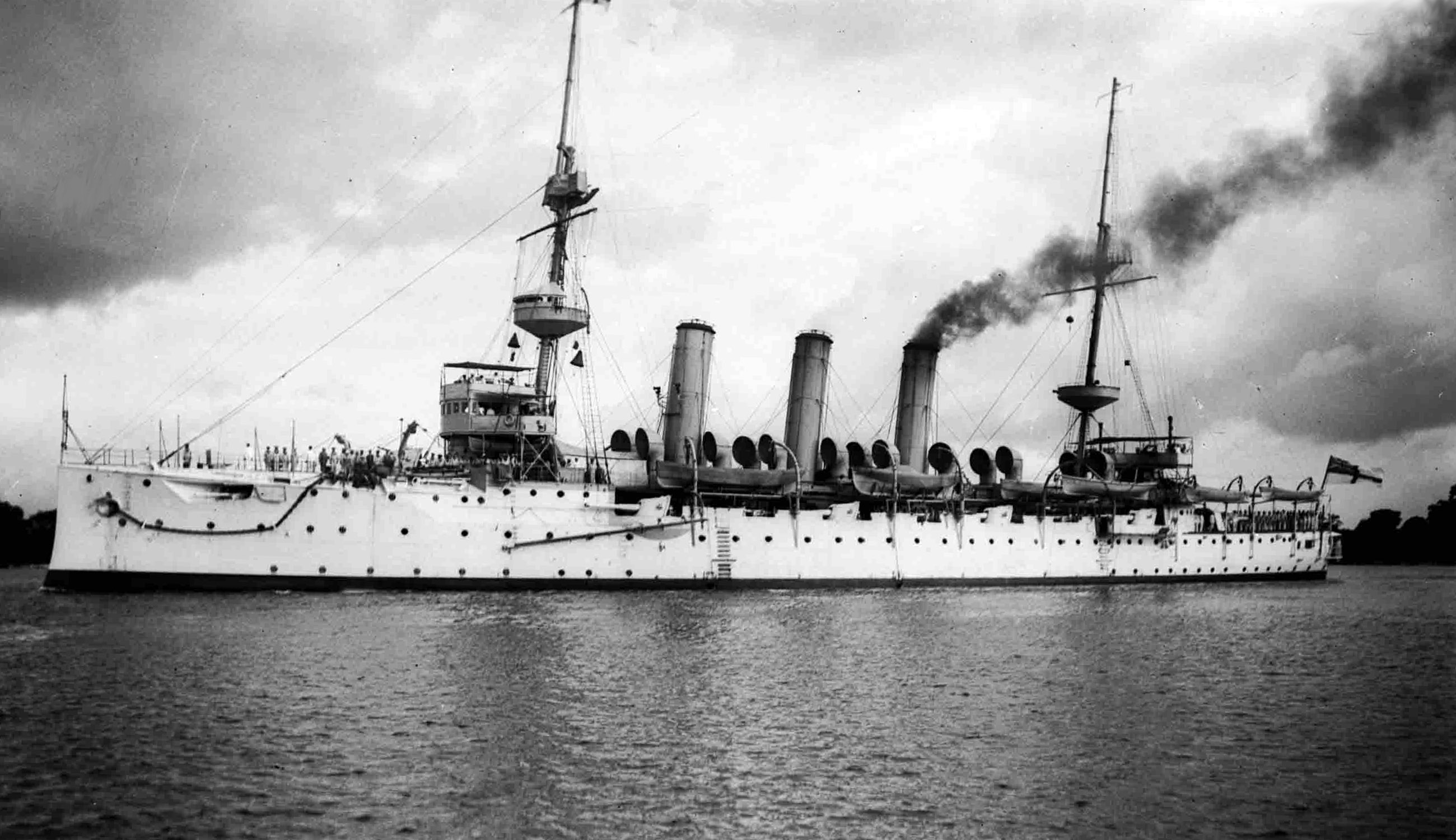 British Cruiser HMS Hermes at Dar es Salaam, German East Africa.